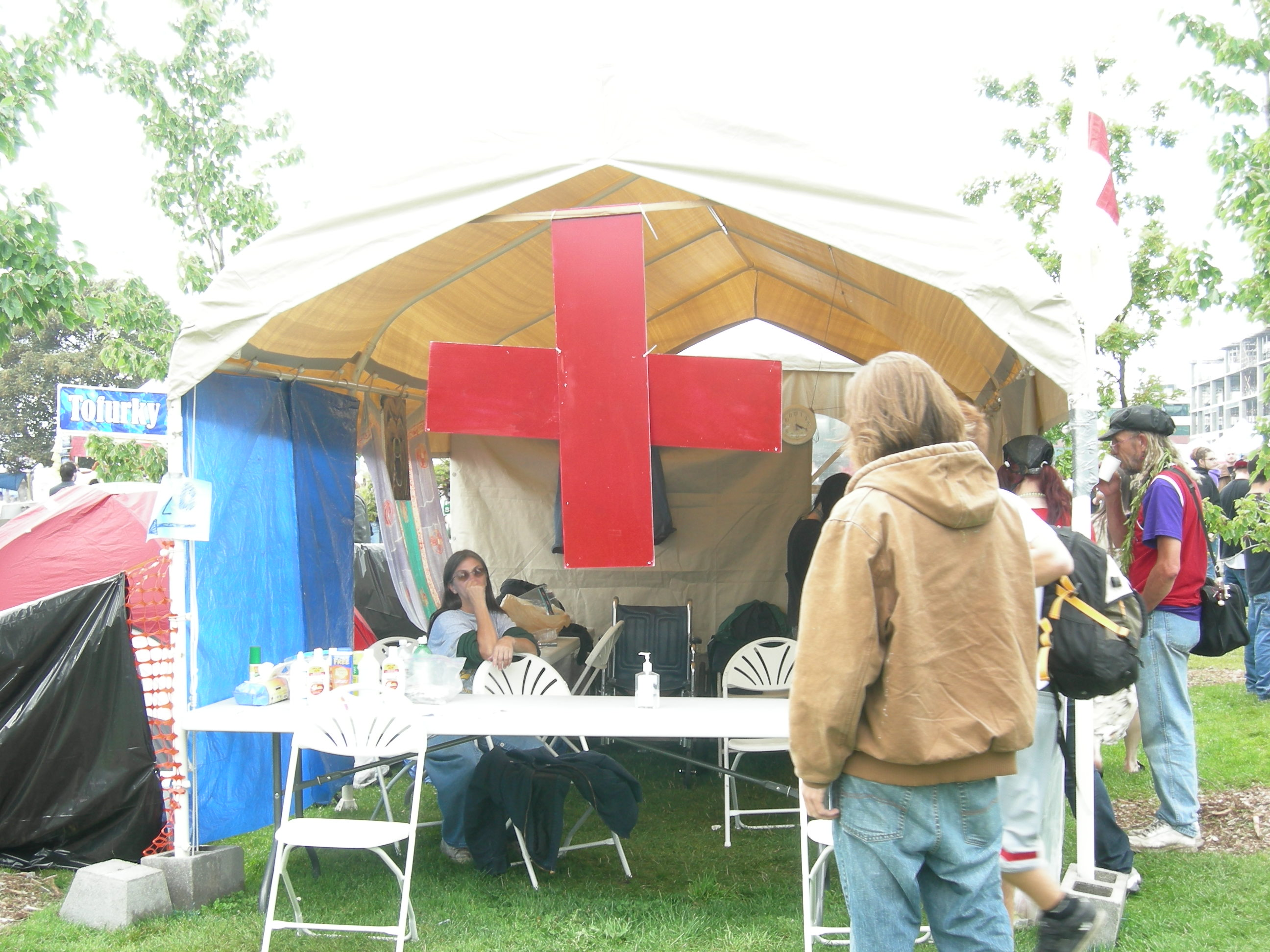 First Aid station, Seattle Hempfest, 2007.